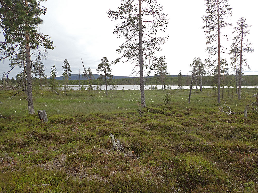 The western part of lake Alep Vátjamjávrre, viewed from the northern shore.